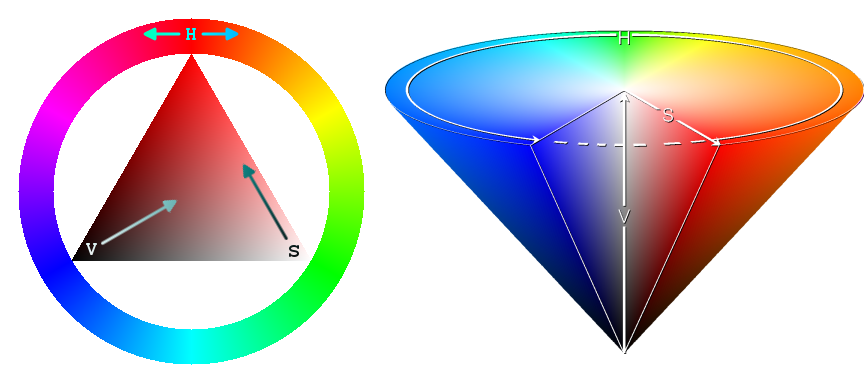 HSV triangle and cone diagrams.